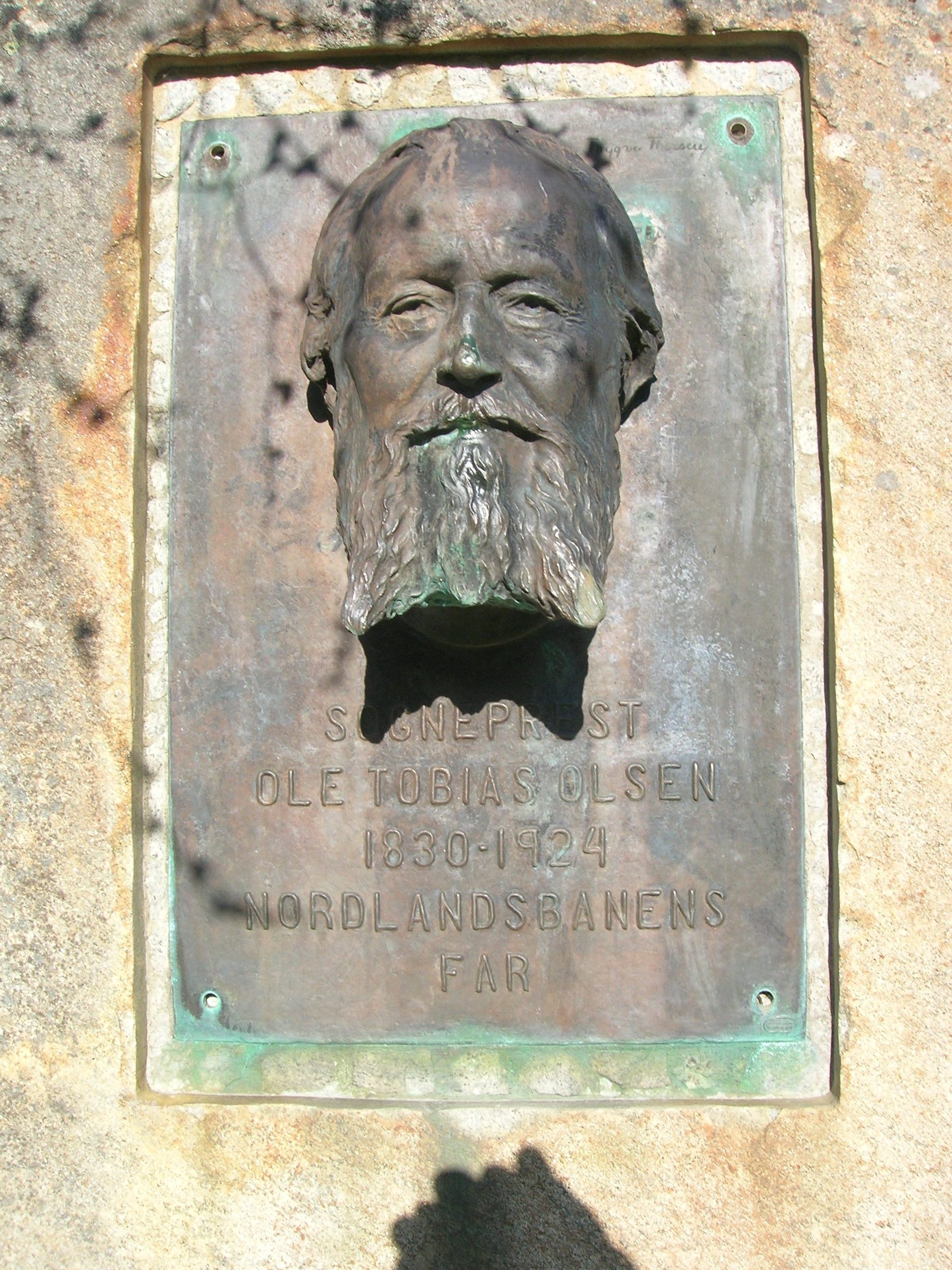 Bust of the priest Ole Tobias Olsen (1830-1924), «the father of the Nordland railway», at Storvoll in Dunderlandsdal, Rana municipality in Nordland county, Norway. Photo June 2, 2008 with a Nikon Coolpix 5600 5,1 Megapixel camera.